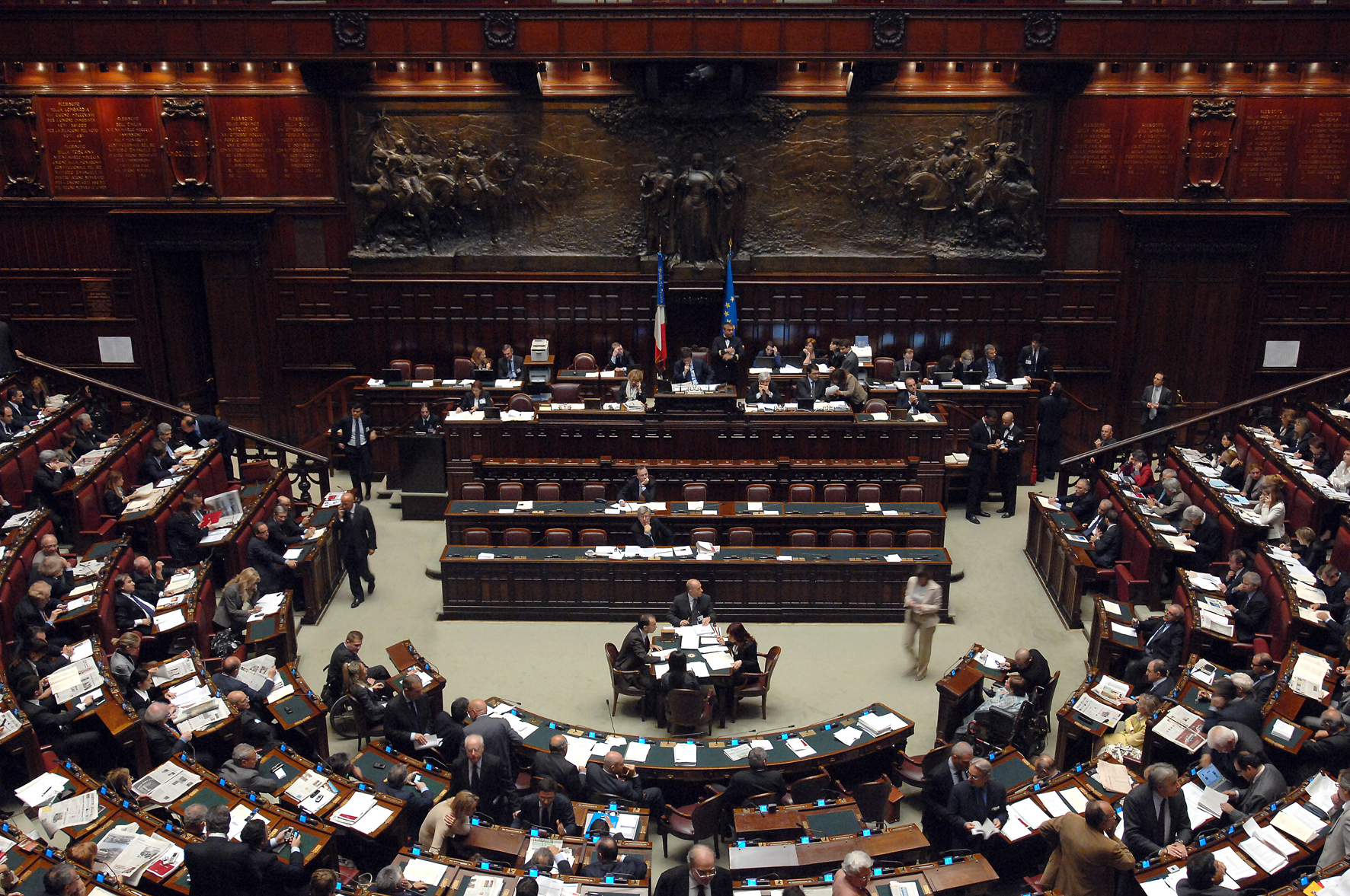 Picture showing the interior of the Italian Chamber of Deputies in Palazzo Montecitorio, Rome, Italy.